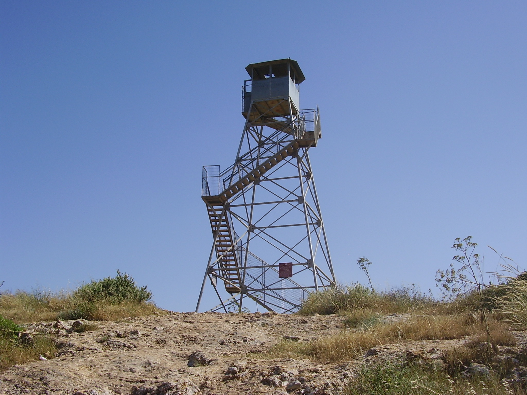 mount barkan lookout